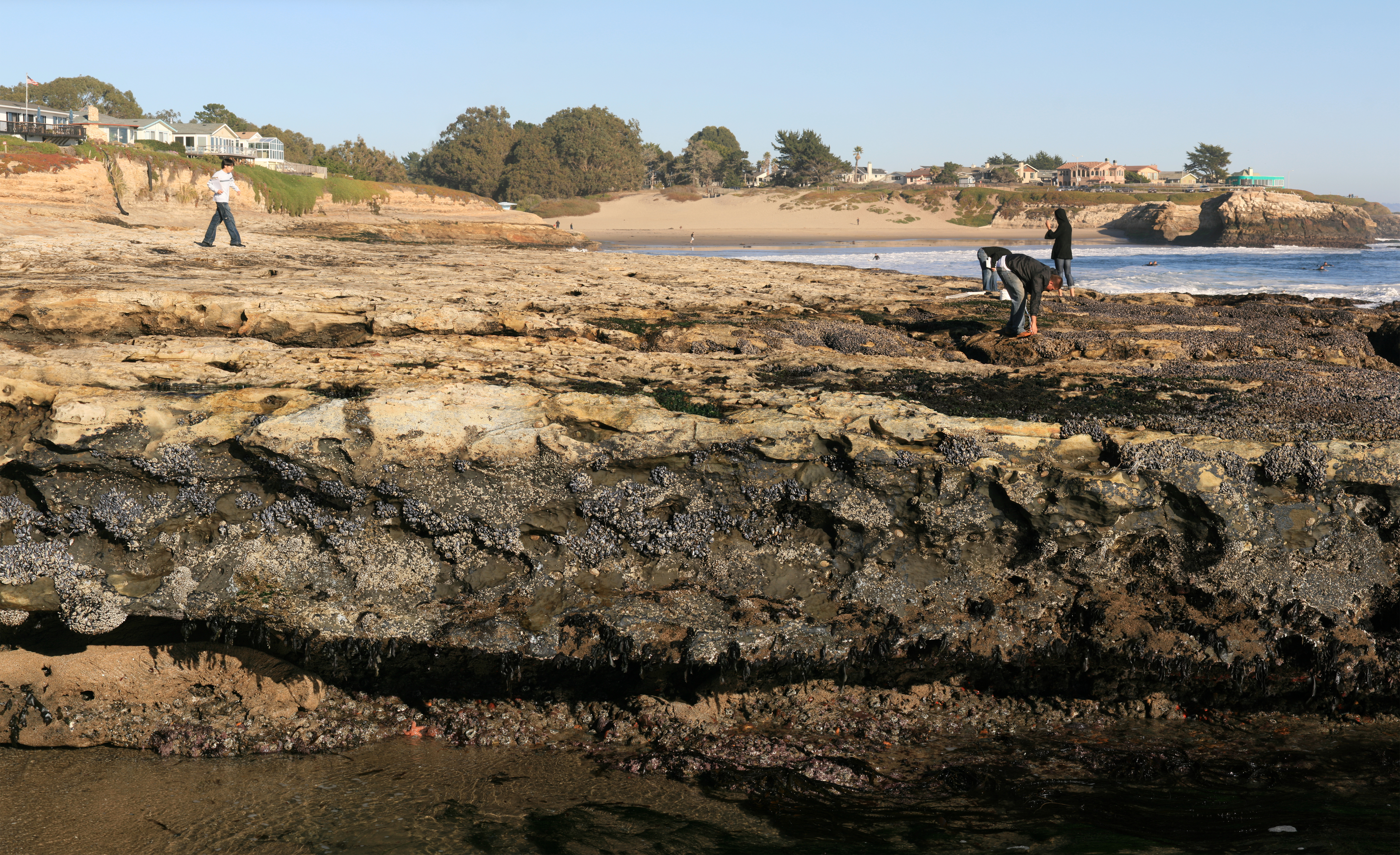 Tide pools in Santa Cruz (Natural Bridges State Park) from spray/splash zone to low tide zone